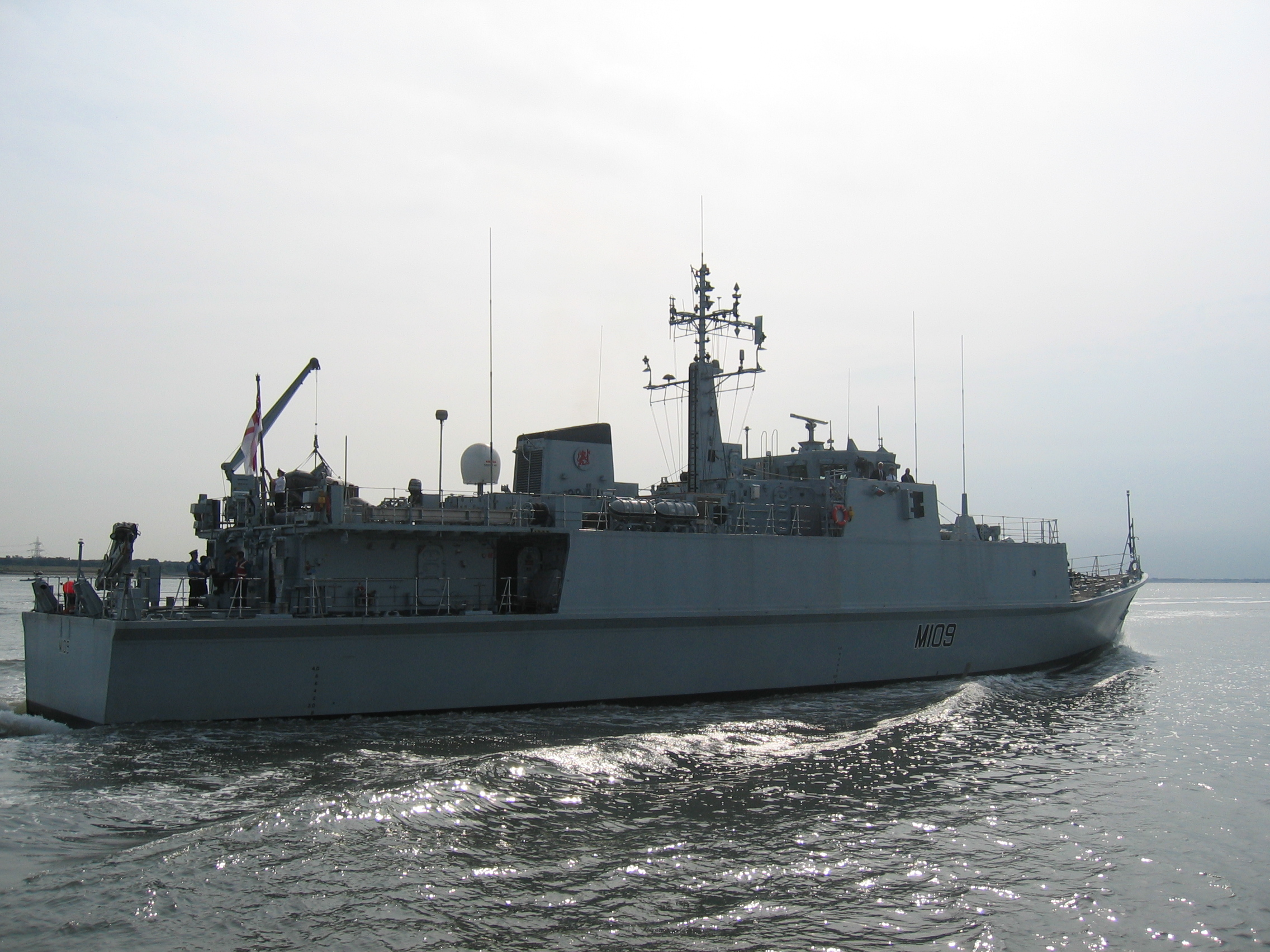 The Sandown class minesweeper HMS Bangor sweeping Southampton Water in preparation for the International Fleet Review 2005.